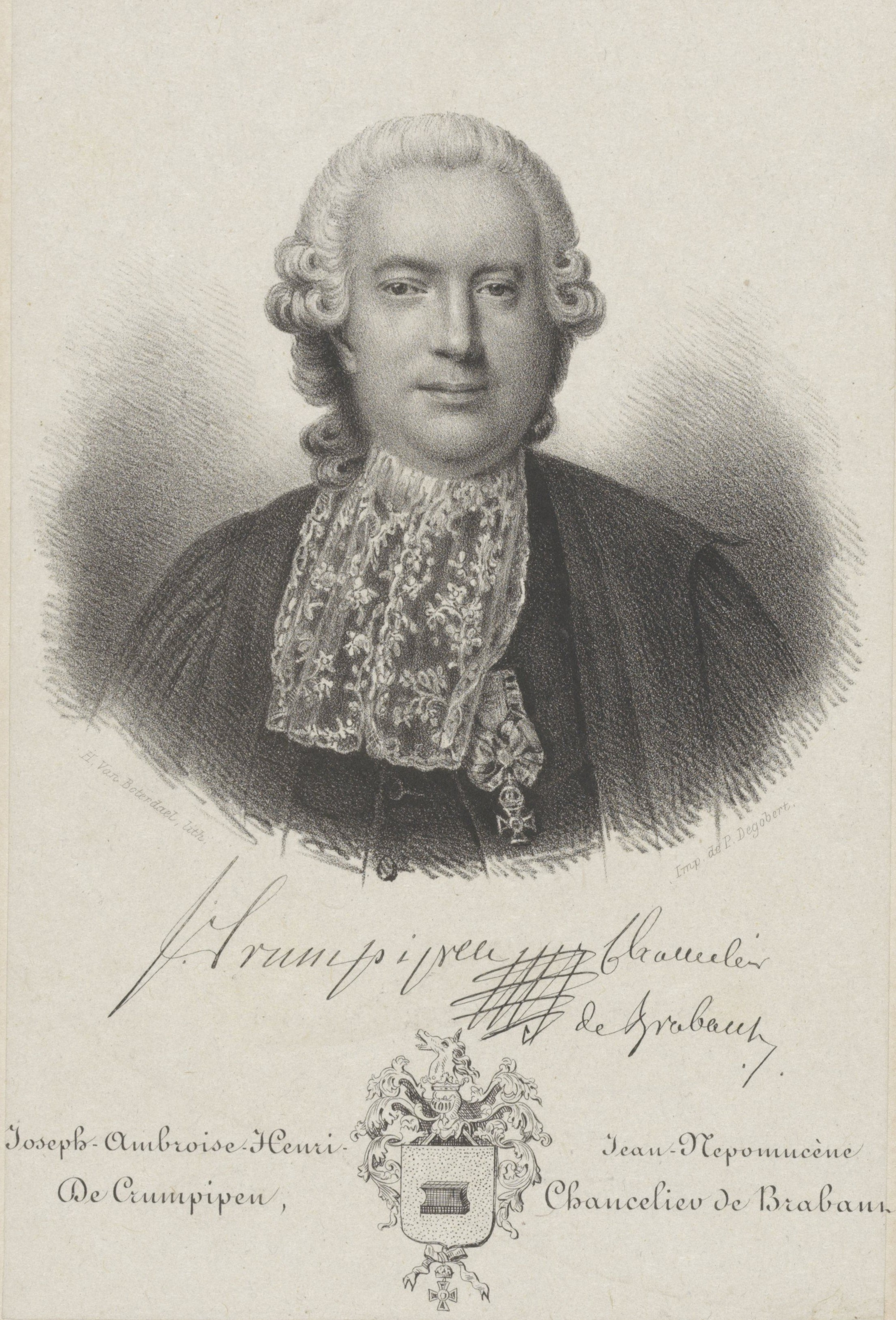 Portrait of Joseph Ambroise de Crumpipen by H. van Boterdael, c. 1830 - c. 1840